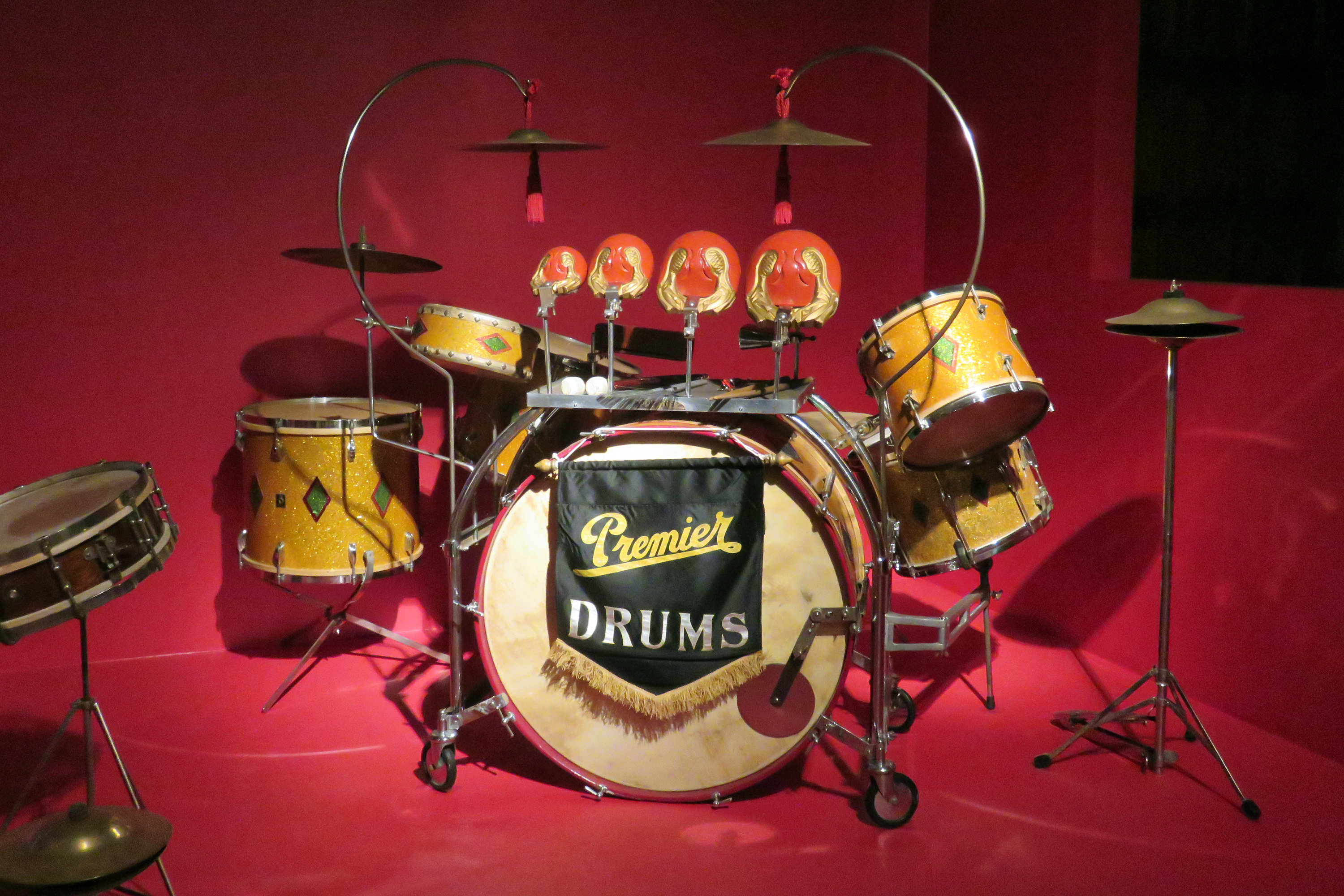 Vintage Premier drum kit, part of a jazz history exhibition at 2 Temple Place, aka Astor House, now an art exhibition space on Victoria Embankment, beside the River Thames in the City of Westminster, London, England. Certain items in the exhibition were marked with 'no photography'; for others, like this, photography was explicitly allowed.Camera: Canon PowerShot SX60 HS.Software: file lens-corrected and optimized with DxO PhotoLab Elite and Viewpoint 3, and further optimized with Adobe Photoshop CS2.